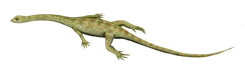 Hyphalosaurus lingyuanensis, an aquatic reptile from the Early Cretaceous of China, pencil drawing